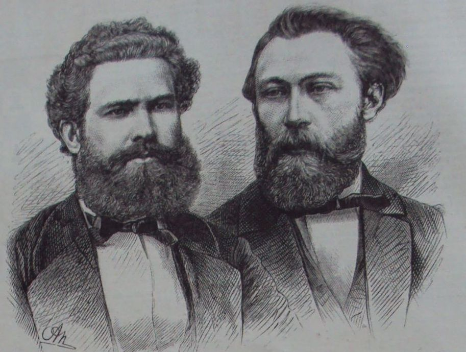 Johannes Kohtz (* 18th July 1843 in Elbing; † 5th October 1918) and Carl Kockelkorn (* 26. November 1843 in Köln; † 16. Juli 1914 in Köln), German chess composers and players